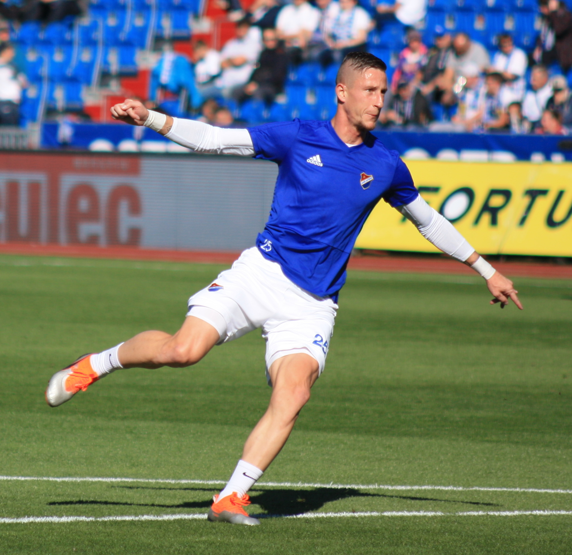 Jiří Fleišman At Czech First League (Fortuna Liga) match FC Baník Ostrava-SK Slavia Praha played on 30. 9. 2018